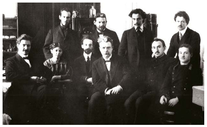 Nikolai Koltsov in centre with his students. c. 1913. Photographer unknown. Courtesy of ARAN. Standing on the far left is Alexander Serebrovskii, sitting on the far left is Mikhail Zavadovskii.